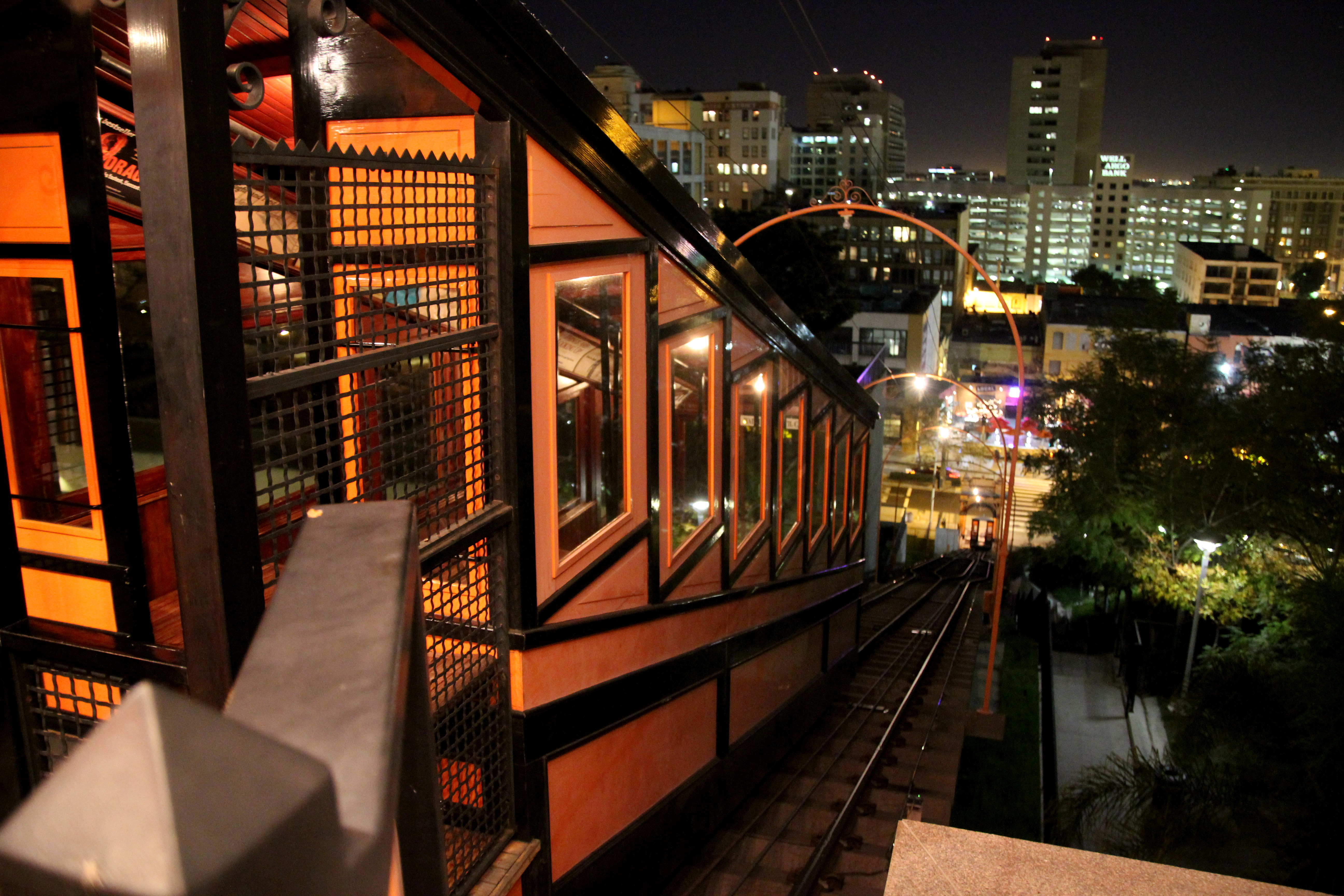 Angels Flight on a December night in 2011. Only 25 cents a ride.